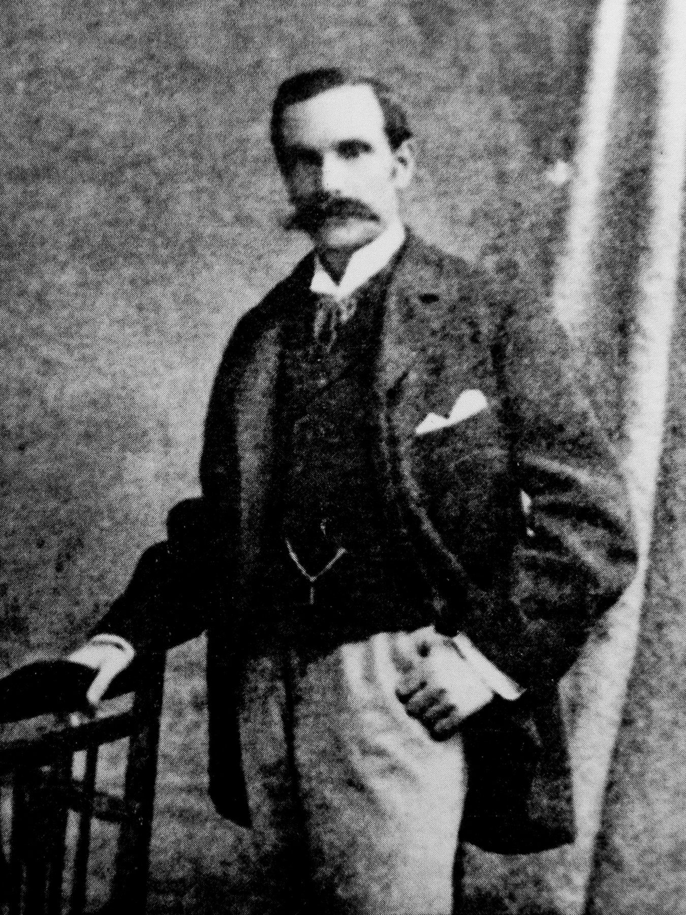 North Borneo Chartered Company: Railway Engineer Arthur J. West